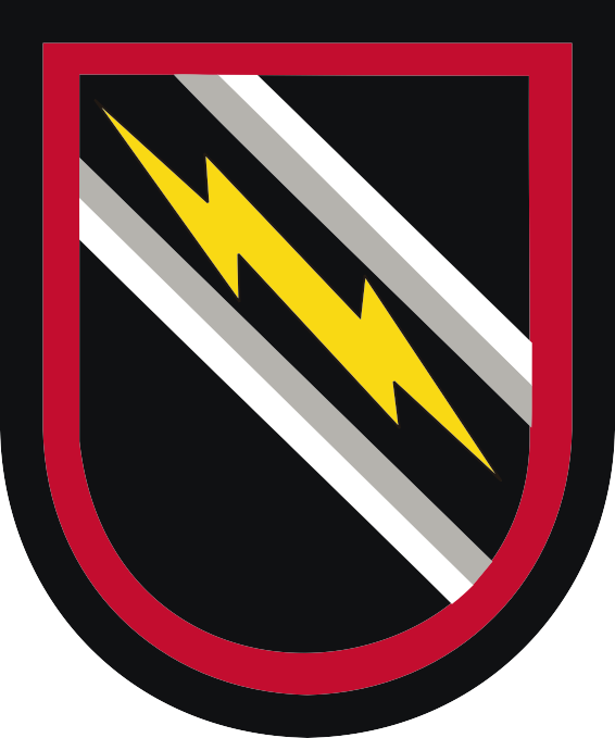 U.S. Army Special Operations Command's 7th Military Information Support Battalion (Airborne) beret flash